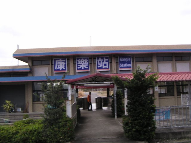 Taiwan Railway Administration Kangle Station